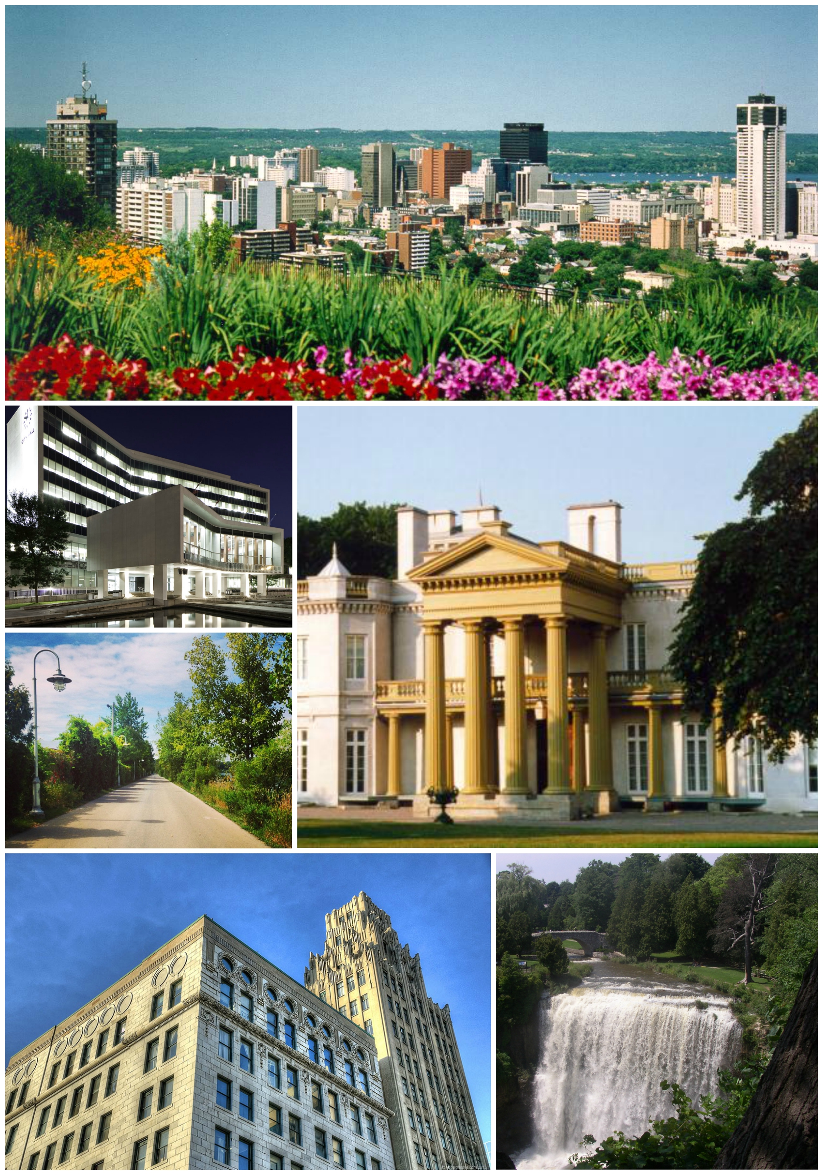 This file contains photos of interesting historical and natural spots in downtown Hamilton, Ontario, Canada